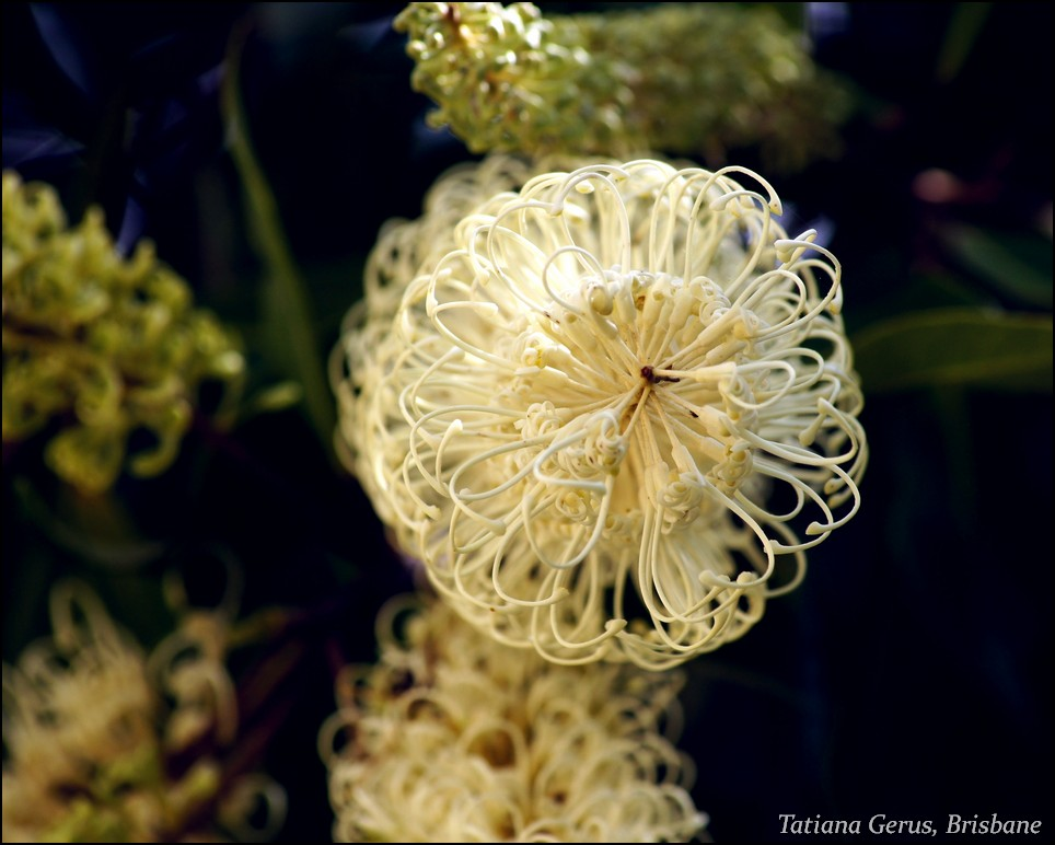 Buckinghamia celsissima - 'Ivory Curl' Australian rainforest flowering tree